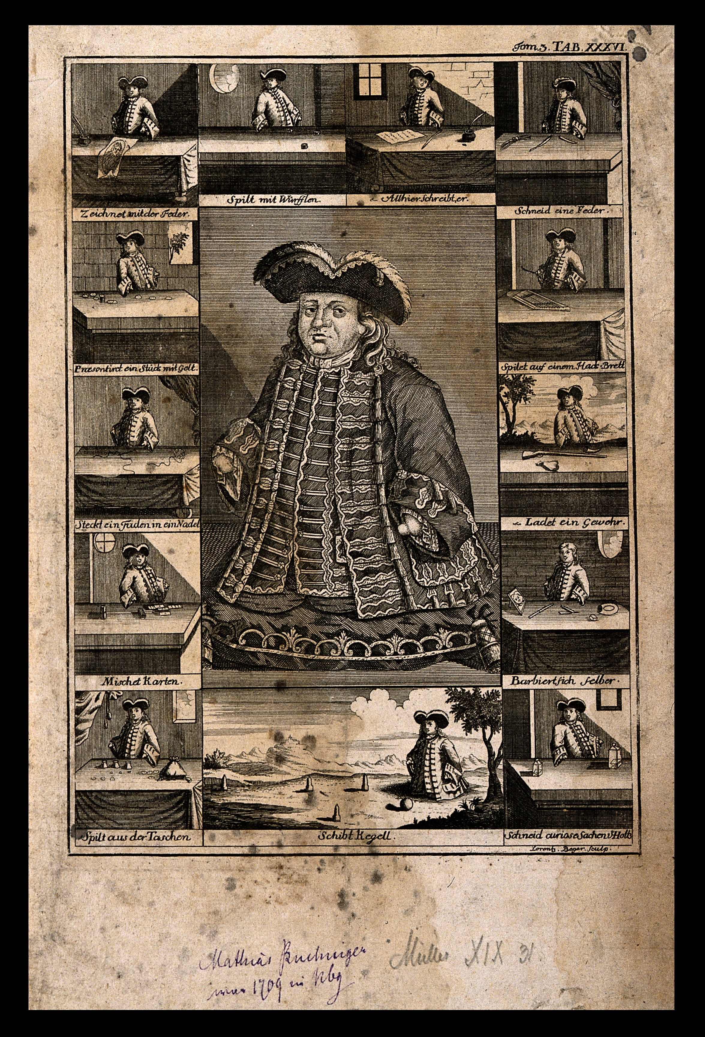 Matthias Buchinger, a phocomelic, with thirteen scenes representing his performances Iconographic Collections Keywords: engravings; buchinger, matthias, 1674-ca.1; Lorentz Beger; portrait prints; Matthias Buchinger; phocomelus